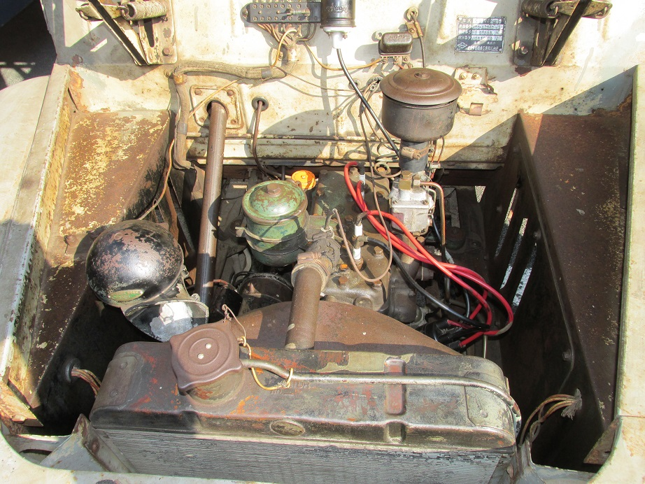 1953 Ohta Type E-9 engine